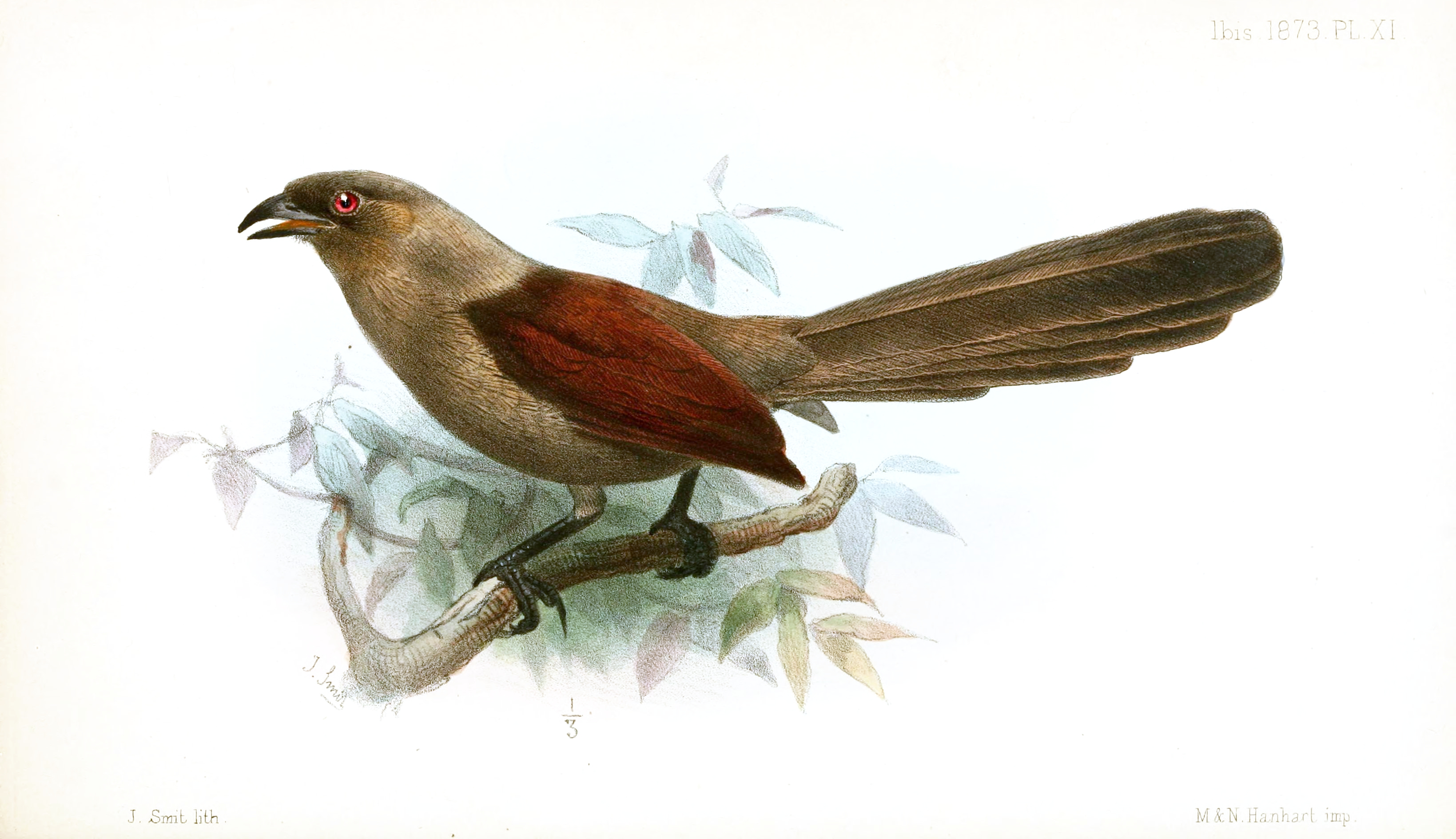 « Centrococcyx andamanensis » = Centropus andamanensis (Andaman Coucal)